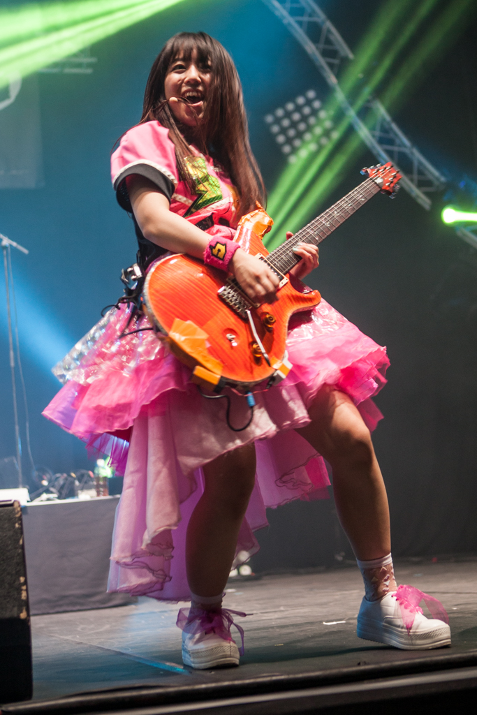 Gacharic Spin